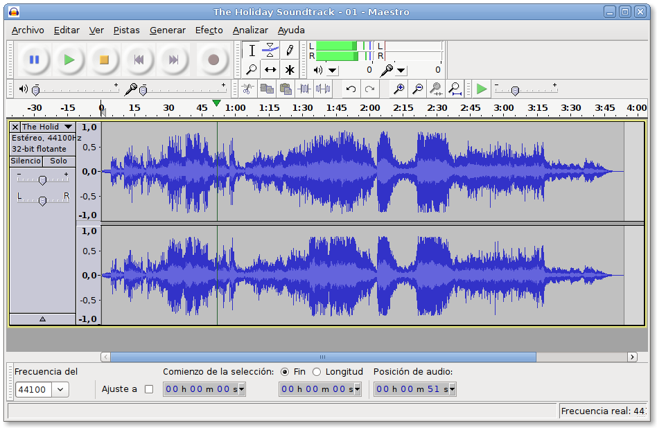 Screenshot of Audacity 1.3.4 in Ubuntu 8.04 (in Spanish)